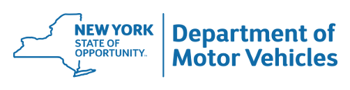 DMV logo